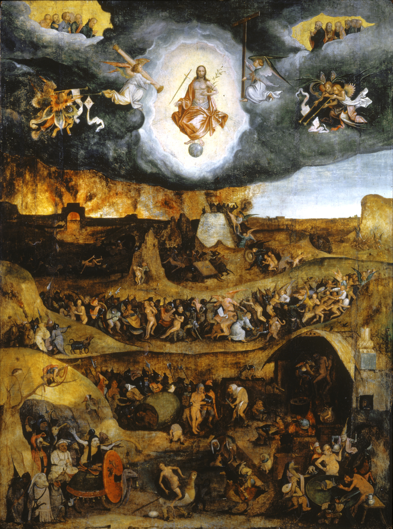 Around 1500, the Netherlander Hieronymus Bosch (ca. 1450-1516) created images of hell as a fantastical wasteland of torment that relied heavily on the hold that belief in monsters had on the imagination of his contemporaries. Pieter Huys was prominent among his many imitators. In this vision of the end of time, Christ, surrounded by angels and the apostles, sits in the heavens as judge. Below, in a blasted landscape, angels and demons battle for souls risen from the dead. In the foreground the damned are subjected to an eternity of punishment fitted to their sins by monstrous demons-half-human, half-animal. At the lower left, a glutton is force-fed food and drink so that his stomach is about to burst. The brilliant, crudely humorous mixing of the ordinary and the extra-ordinary humor brings home the message.